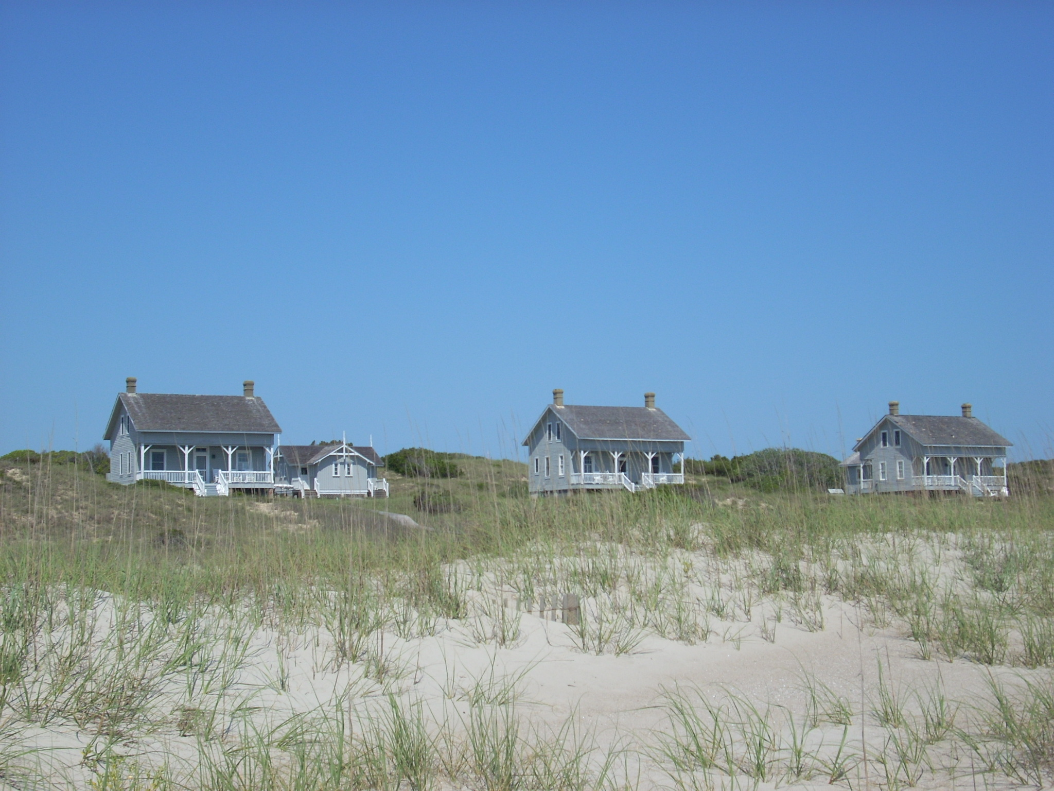 Captain Charlie's Station, Bald Head Island (Brunswick County, North Carolina). Lightkeeper housing at Cape Fear Light named for Captain Charlie Swann